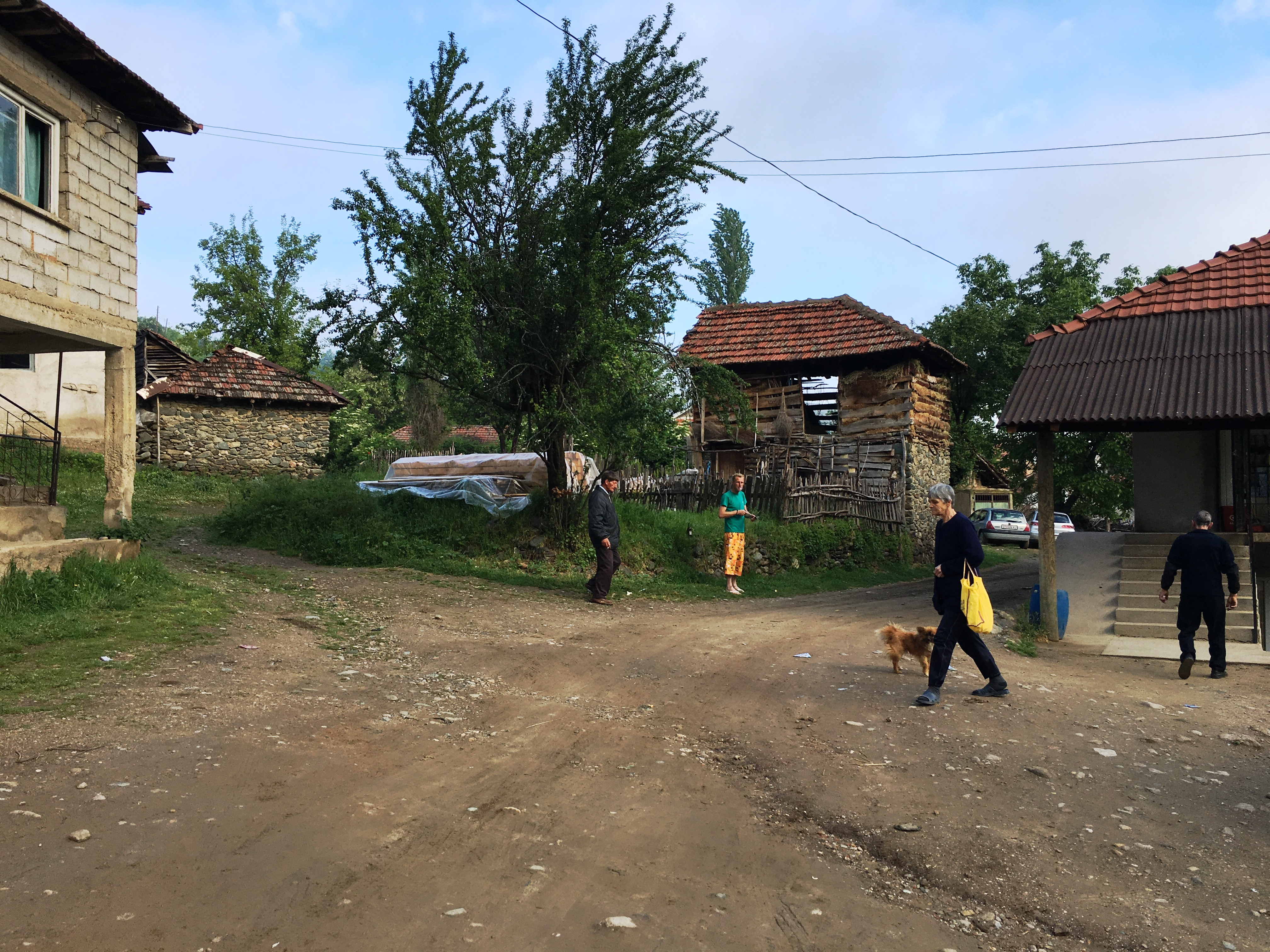 The centre of the village Gradec, Vinica, Macedonia.